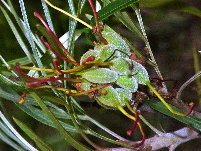 Species: Grevillea banksii Family: Proteaceae Image No. 1